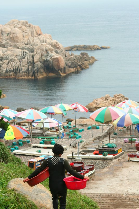 Haenyeo, female diver collecting seafood such as abalones, conch, shellfish under the sea for living in Korea.